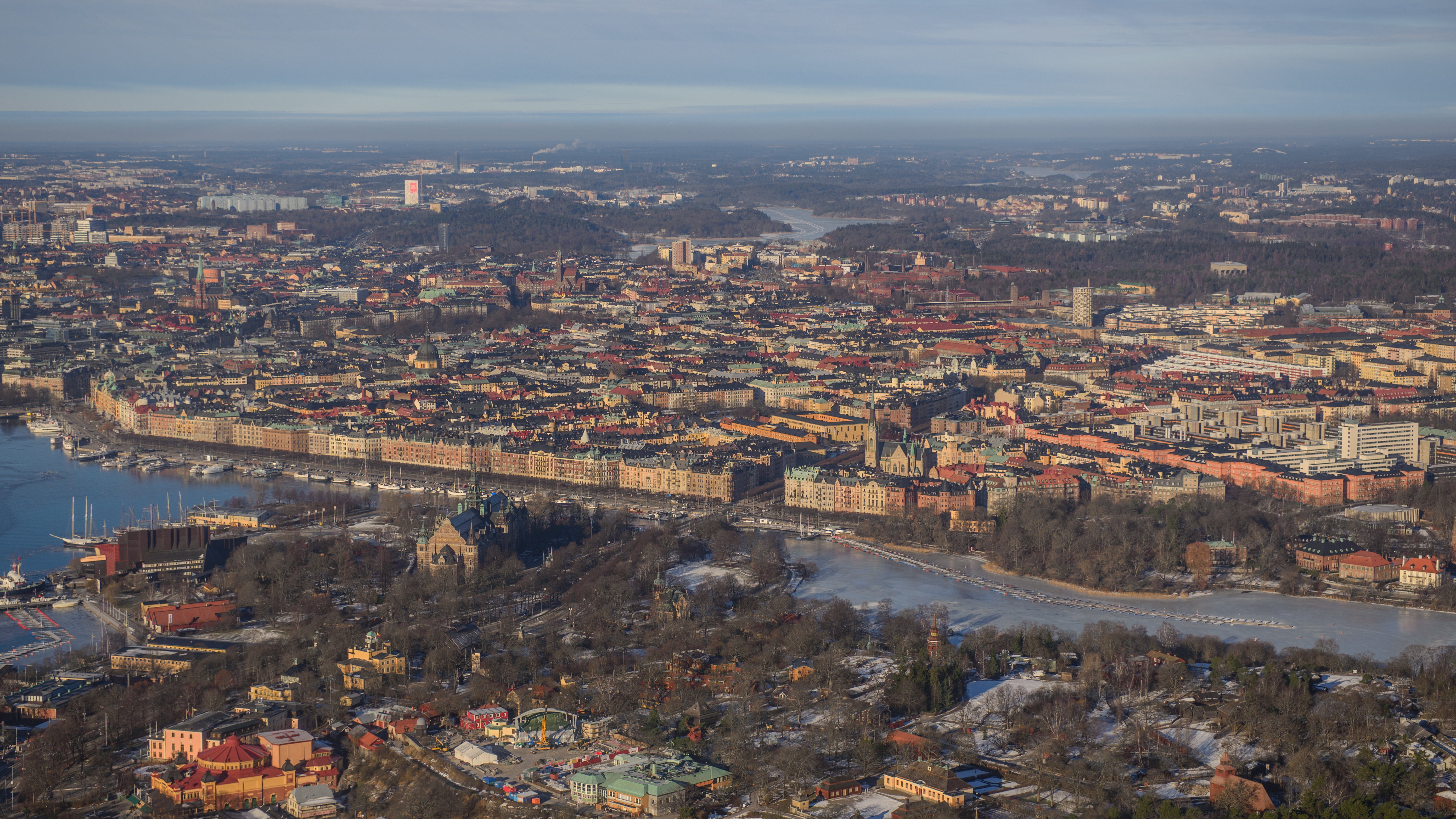 Östermalm and Djurgården (foreground).